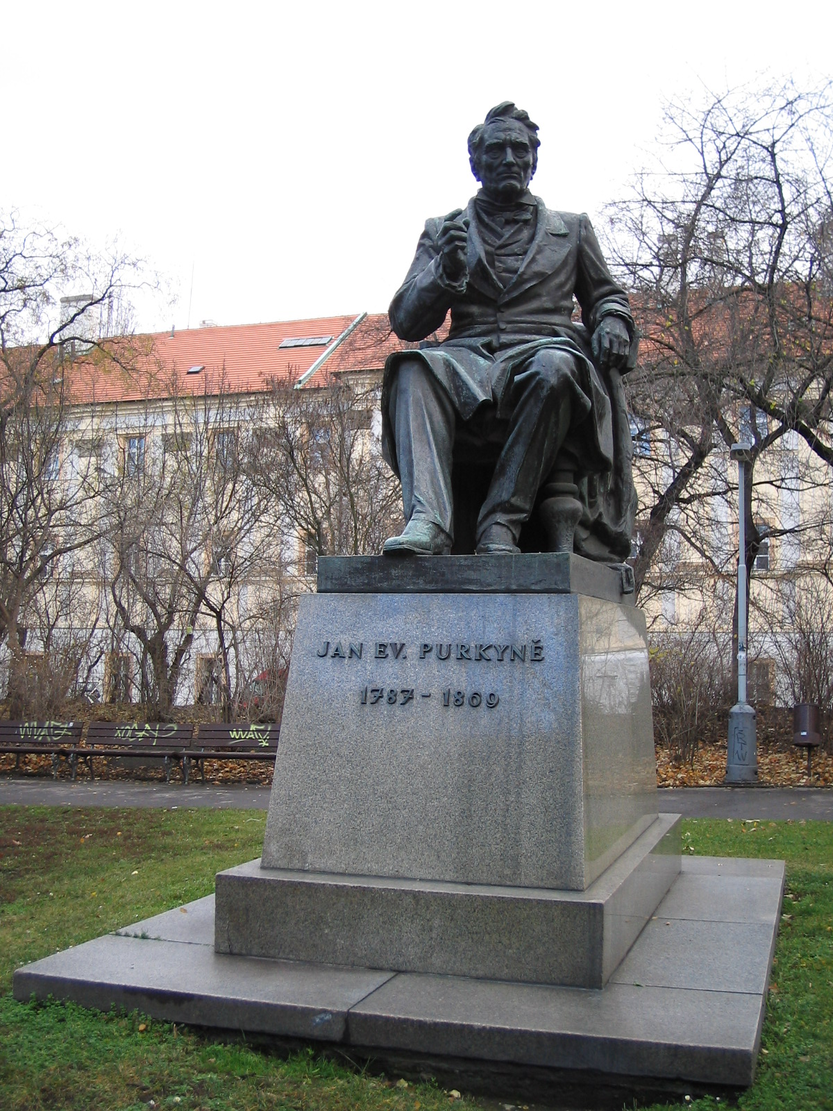 Statue of Jan Evangelista Purkyně by Oskar Kozák, Vladimír Štrunc, 1961, placed on Karlovo náměstí, Praha.